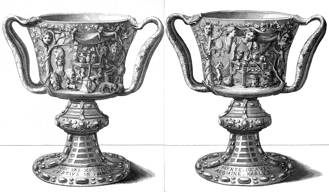 Engraving by Michel Félibien, depicting the front and the back of the Cup of the Ptolemies.